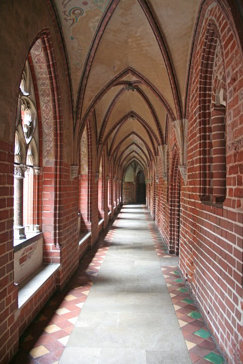 Malbork, cloister at the High Castle (1st story)